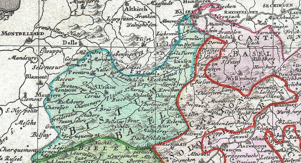 The respective territories of the Prince-Bishopric of Basel (aqua) and the Canton of Basel (pink). Since the first half of the 16th century, the prince-bishop had resided in Porrentruy ("Prentru" on the map). In the 19th century, the city of Basel, which had hitherto been part of the canton, will secede to form a new canton (Basel-Stadt). Cropped from a map of Switzweland published by Homann Heirs in 1751.